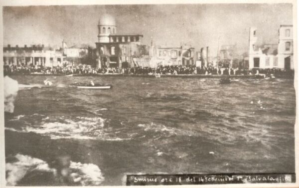 Smyrna fire. Buildings on fire and rescue boats. 14.Sep.1922. 06:00 PM.